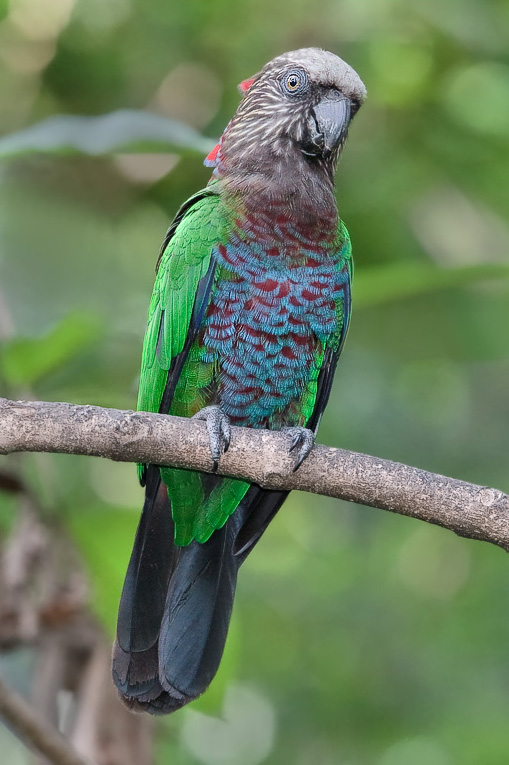 Red-fan Parrot